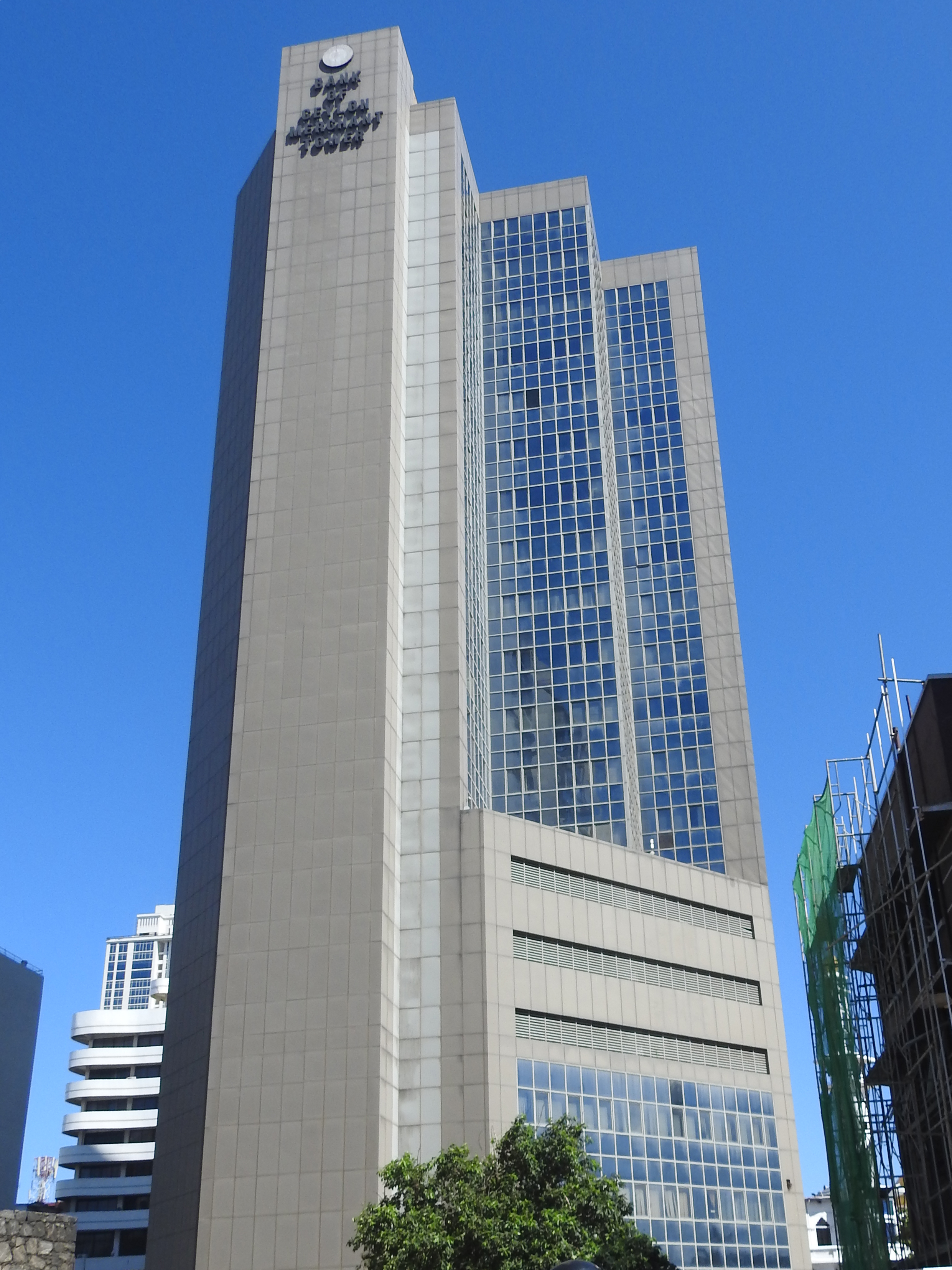 Photos of current/future skyscrapers (and its surroundings) in Colombo, taken by User:Rehman and User:Azeez as part of a photowalk project by Wikimedia Community User Group Sri Lanka. The photowalk covered most of the tallest structures in Colombo that are either completed or under construction. Further information on the subject(s) of the photograph can be found in the category/ies of this file.